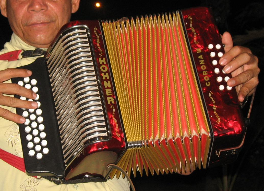 Vallenato accordion.